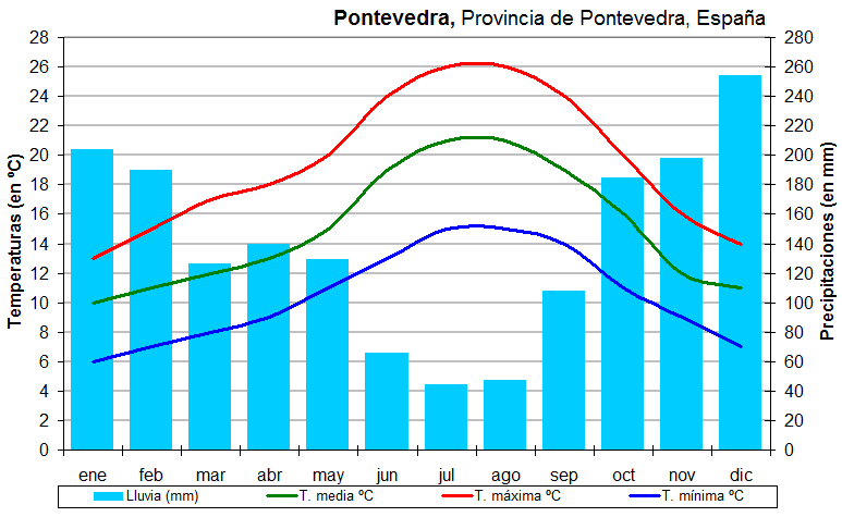 Pontevedra city (Spain) Climate Chart